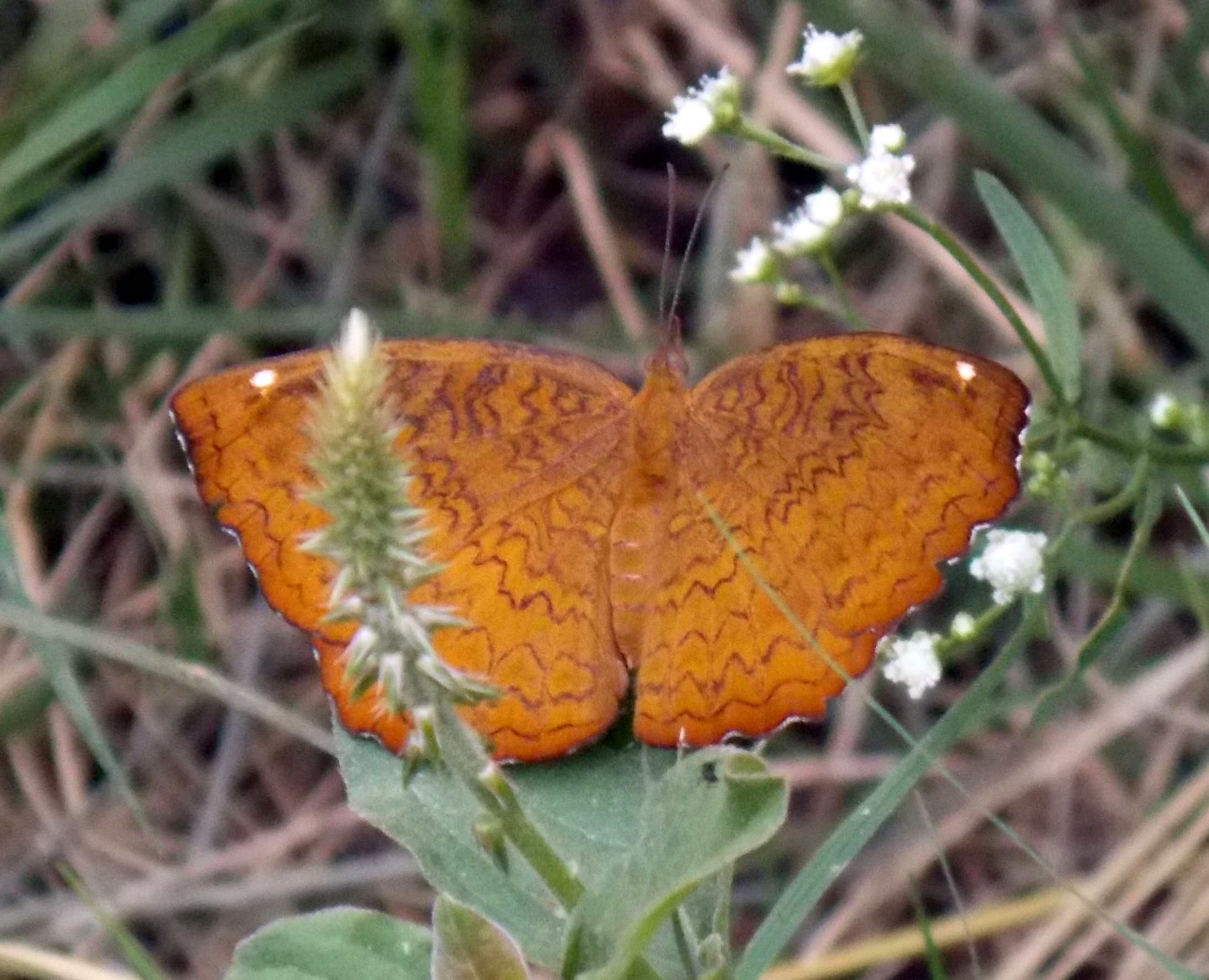 Ariadne merione (Common Castor) from Taxila (Rawalpindi, Punjab, Pakistan)